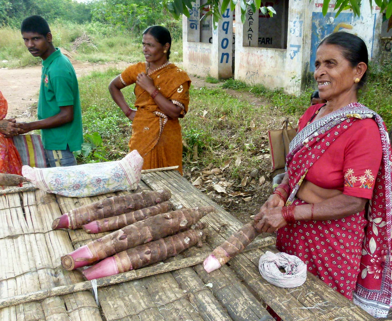 Alocasia macrorrhiza roots being sold near Khanapur, Uttara Kanara, India